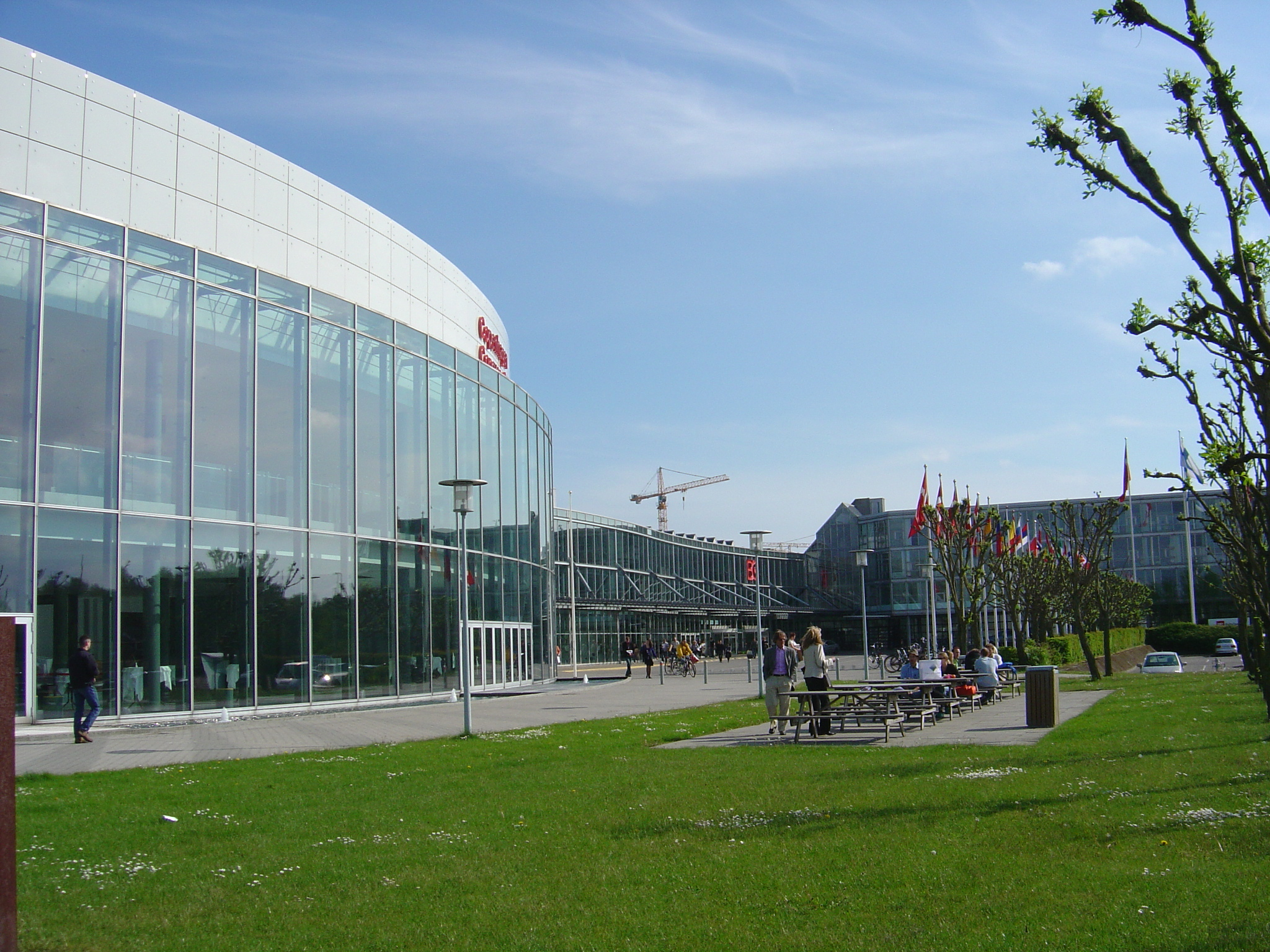 Bella Center on Amager, Copenhagen. Seen from the northwest side with Copenhagen Congress Center (to the left), West Entrance (in the middle) and International House (to the right).